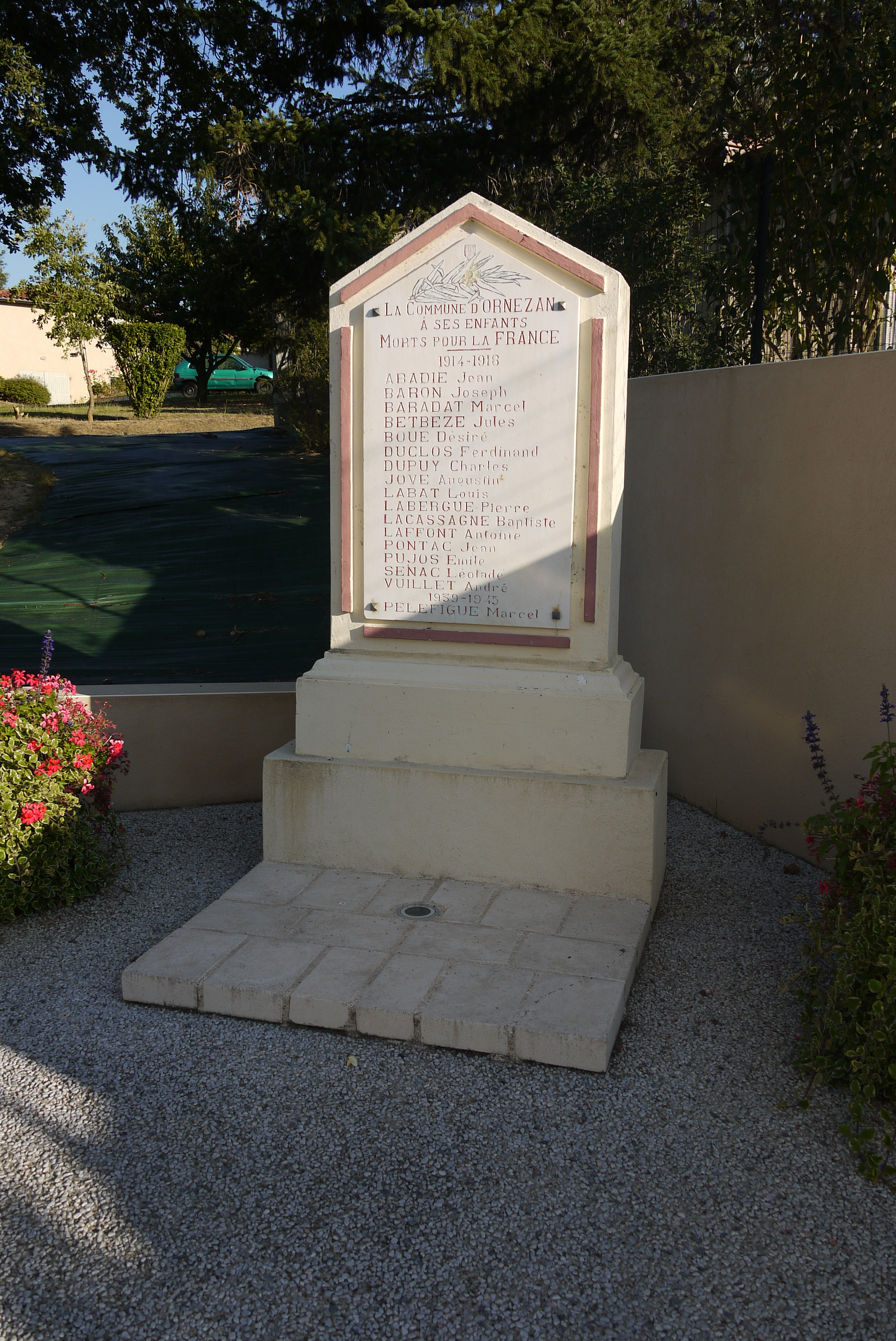 The war memorial in Ornézan